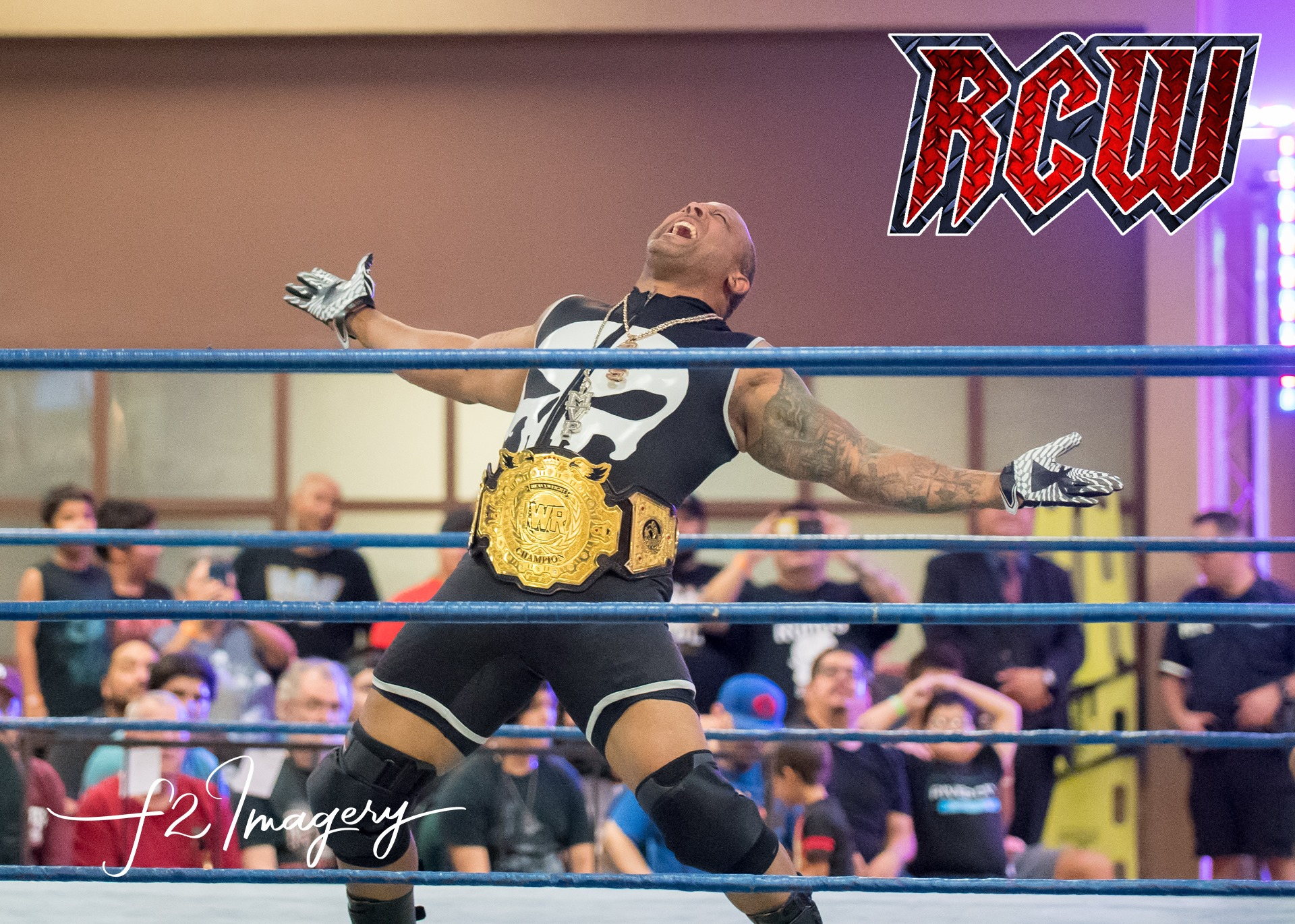 MVP as Champion